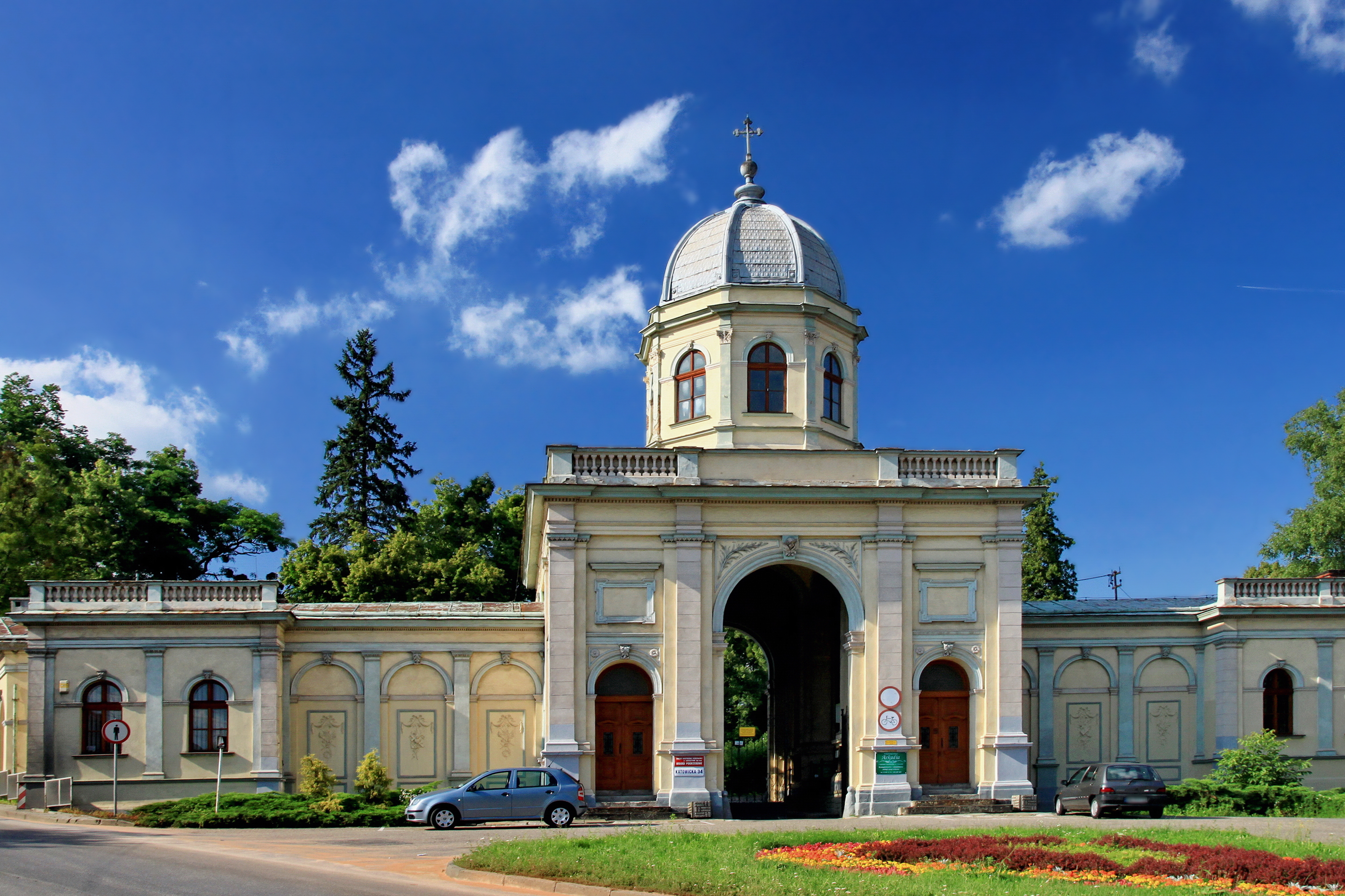 Cieszyn, communal cemetery, 19th century, main gate